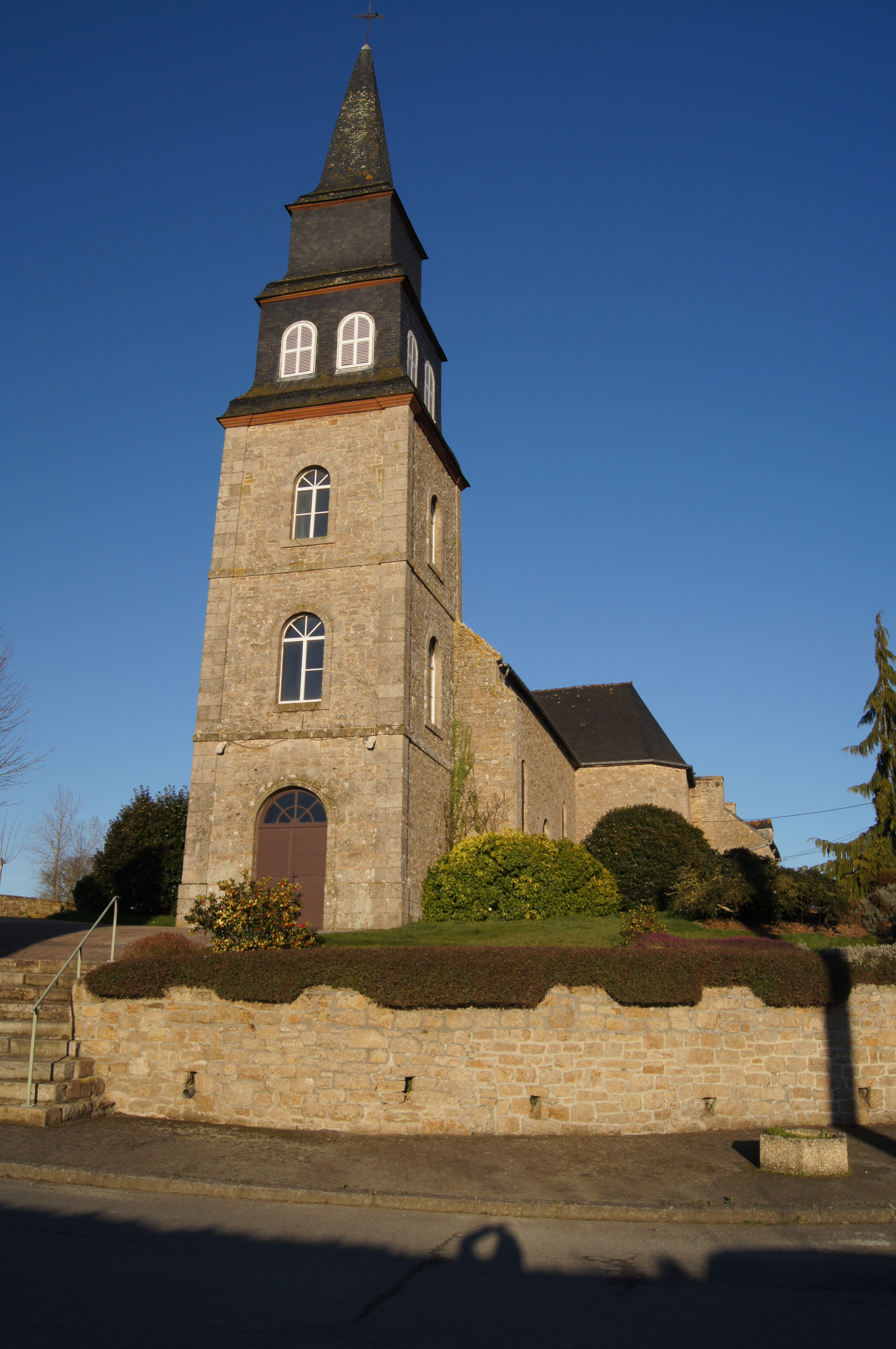 church